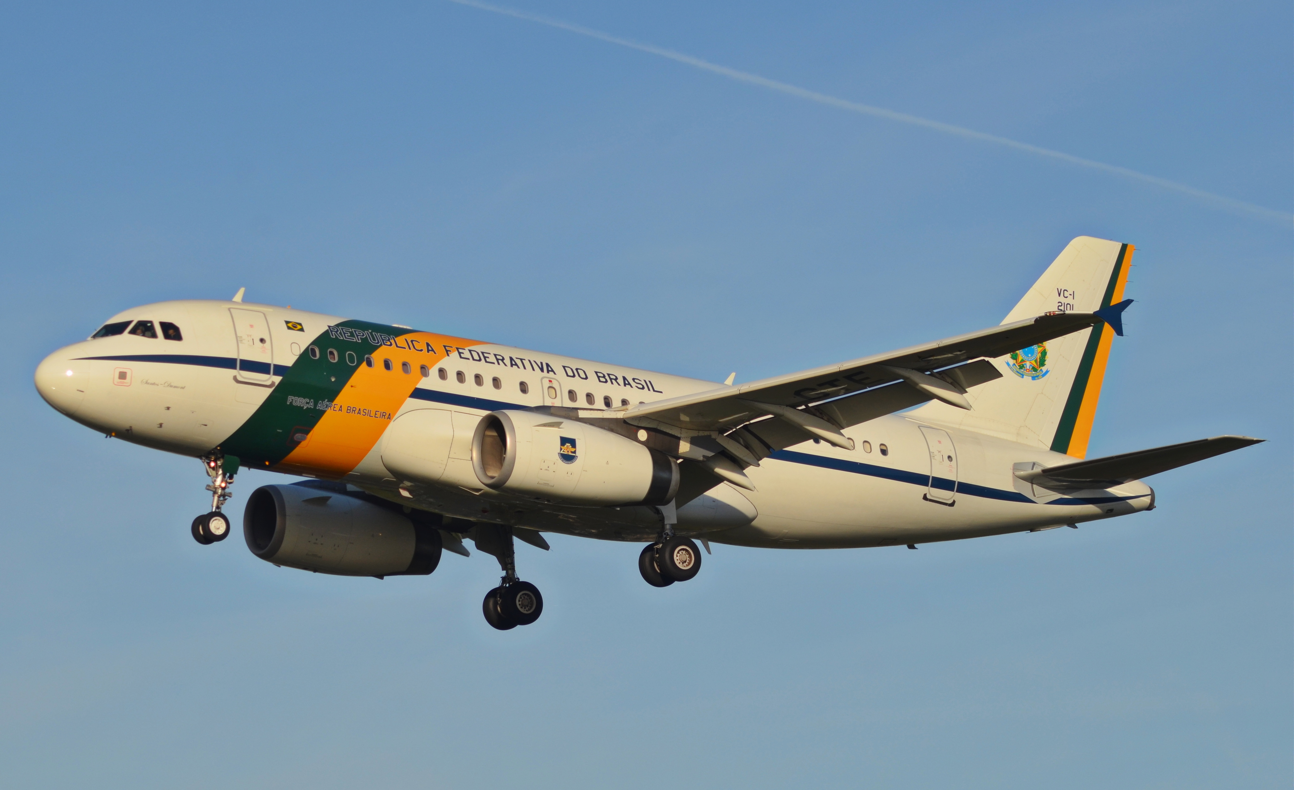 Airbus A319CJ Brazilian Air Force FAB2101